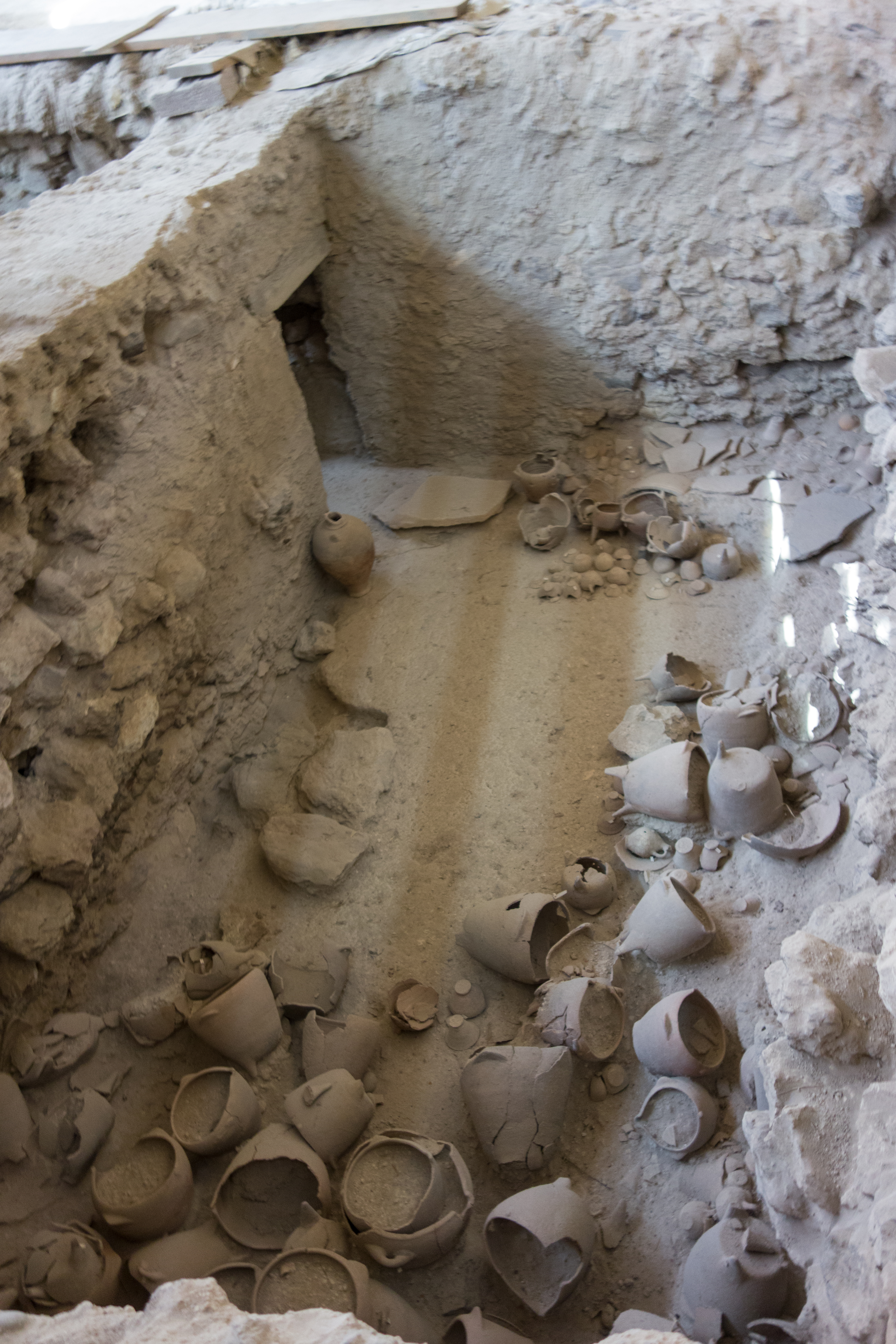 Storage pottery«Ακρωτήρι Θήρας»